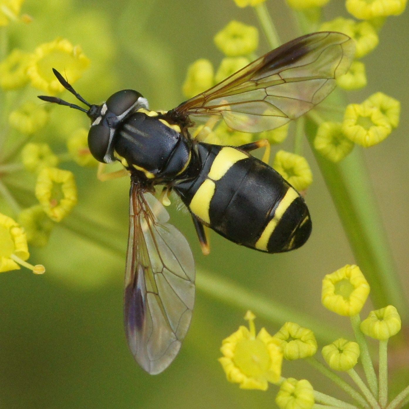 Chrysotoxum bicinctum (female). Picture taken in Skåne, Sweden.